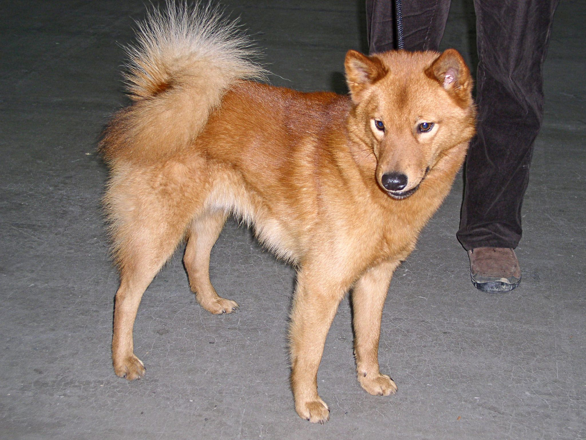 Finnish Spitz. The picture was taken by PrzemekL during World Dog Show 2006 in Poznań.